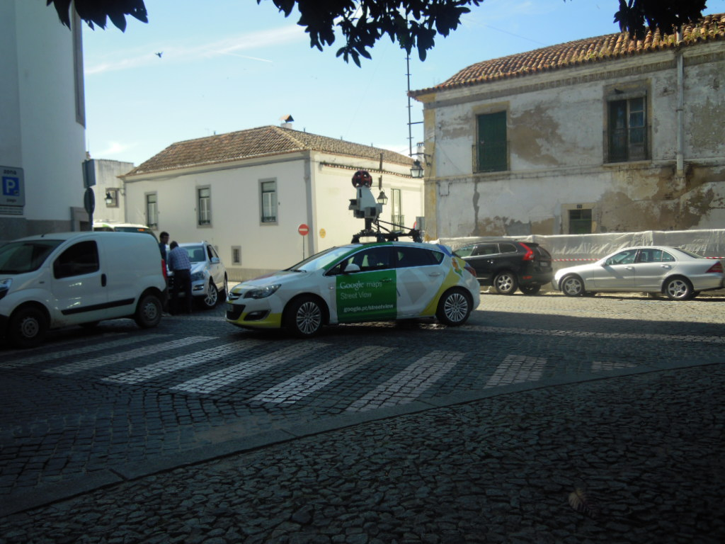 A Google Street View camera car in the town of Évora in Portugal